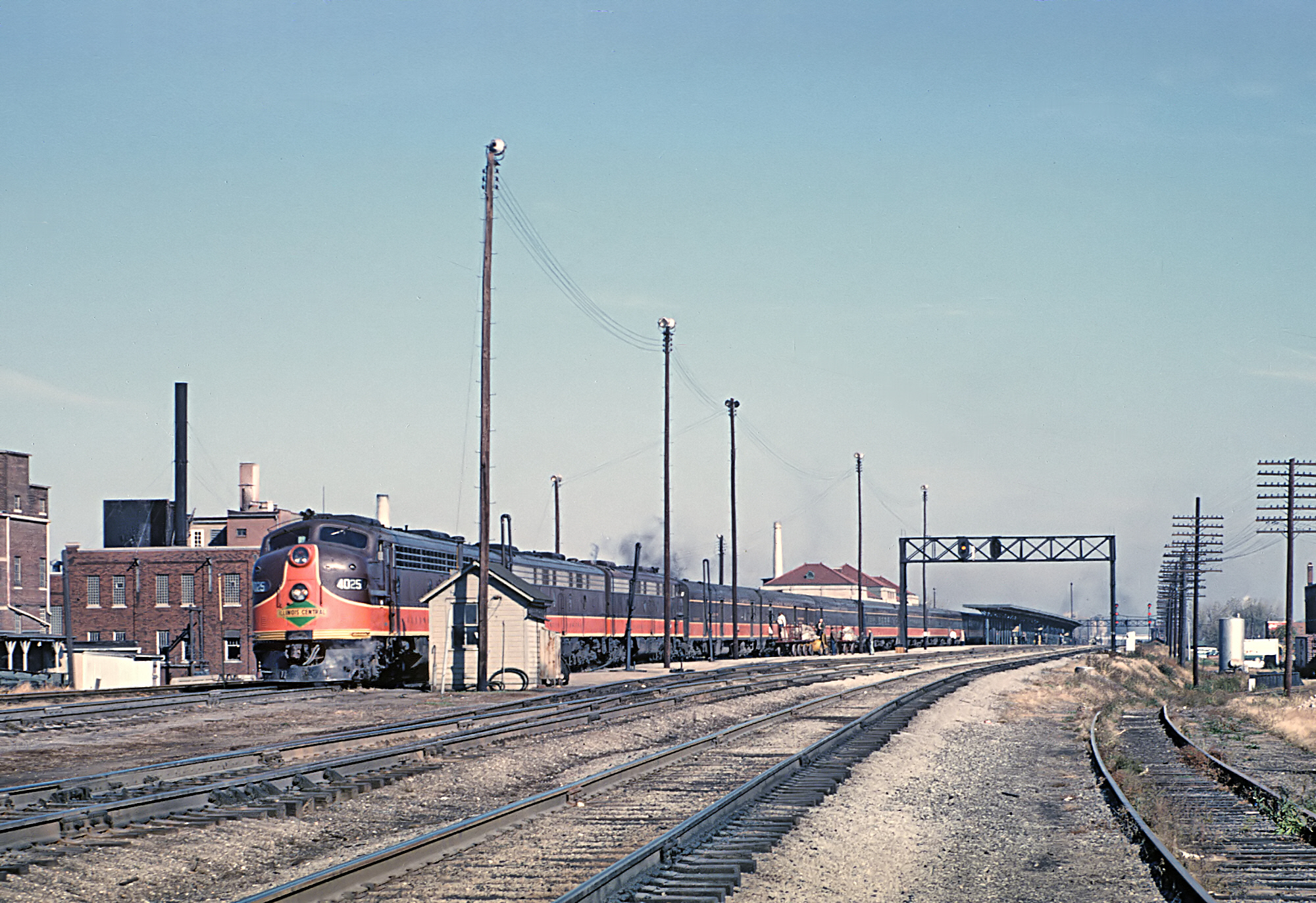 Train 1, The City of New Orleans, awaiting departure at Champaign, IL station on October 27, 1962. A Roger Puta Photograph